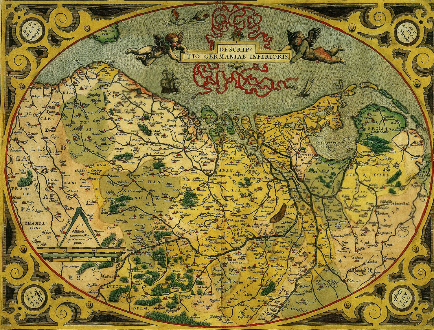 Descriptio Germaniae inferioris